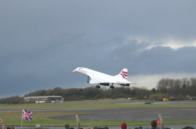 The Final Seconds. This was the very last time that a Concorde was airborne anywhere in the world. Concorde 216 (G-BOAF) arriving home to Filton at 14.08 on November 26th 2003.